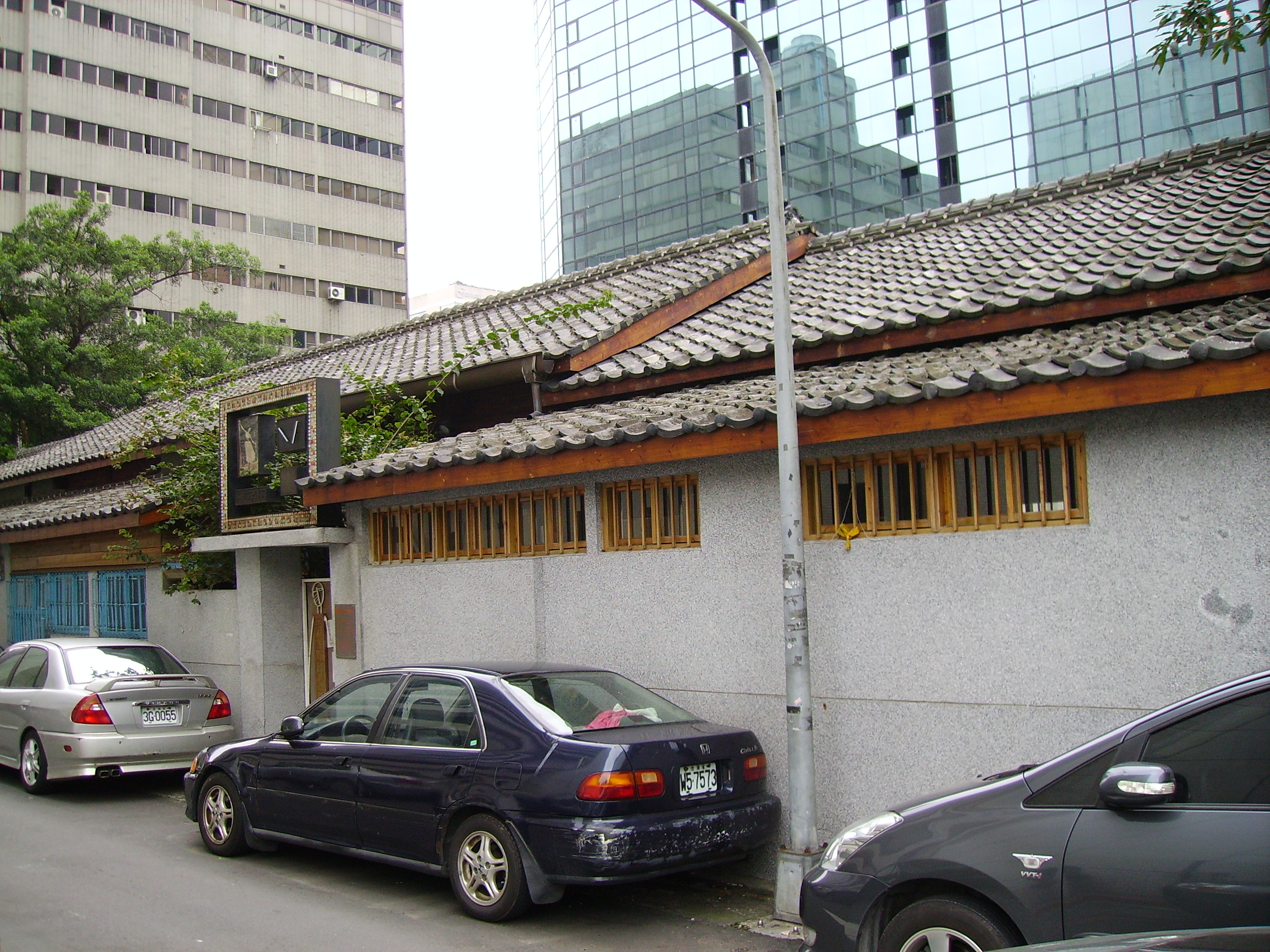 Tsai Jui-yueh Dance Institute.